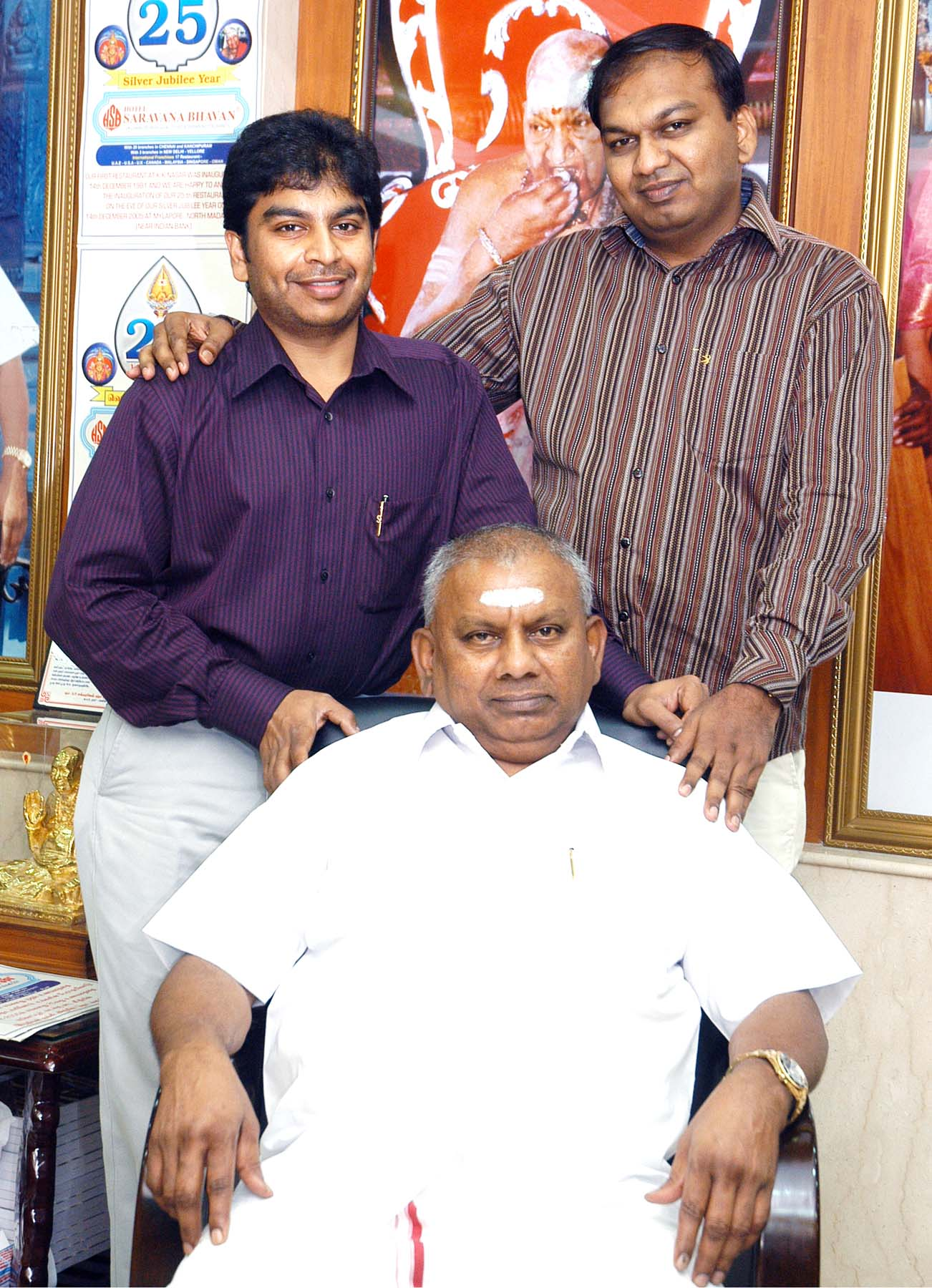 Depicted person: P. Rajagopal – Indian businessman